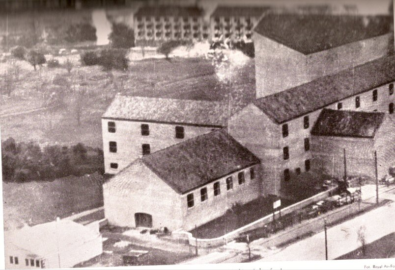 RAF Attack on Aarhus University Gestapo headquarters 31 October 1944